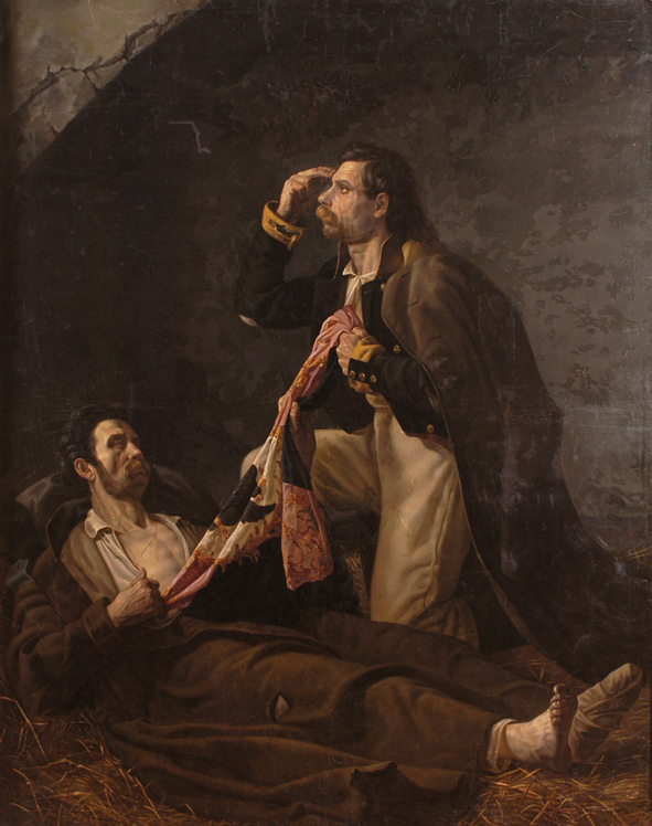 The Dying Soldier by Polidor Babaev. Depicts the real soldier Semyon Starichkov, who died in French captivity after the Battle of Austerlitz